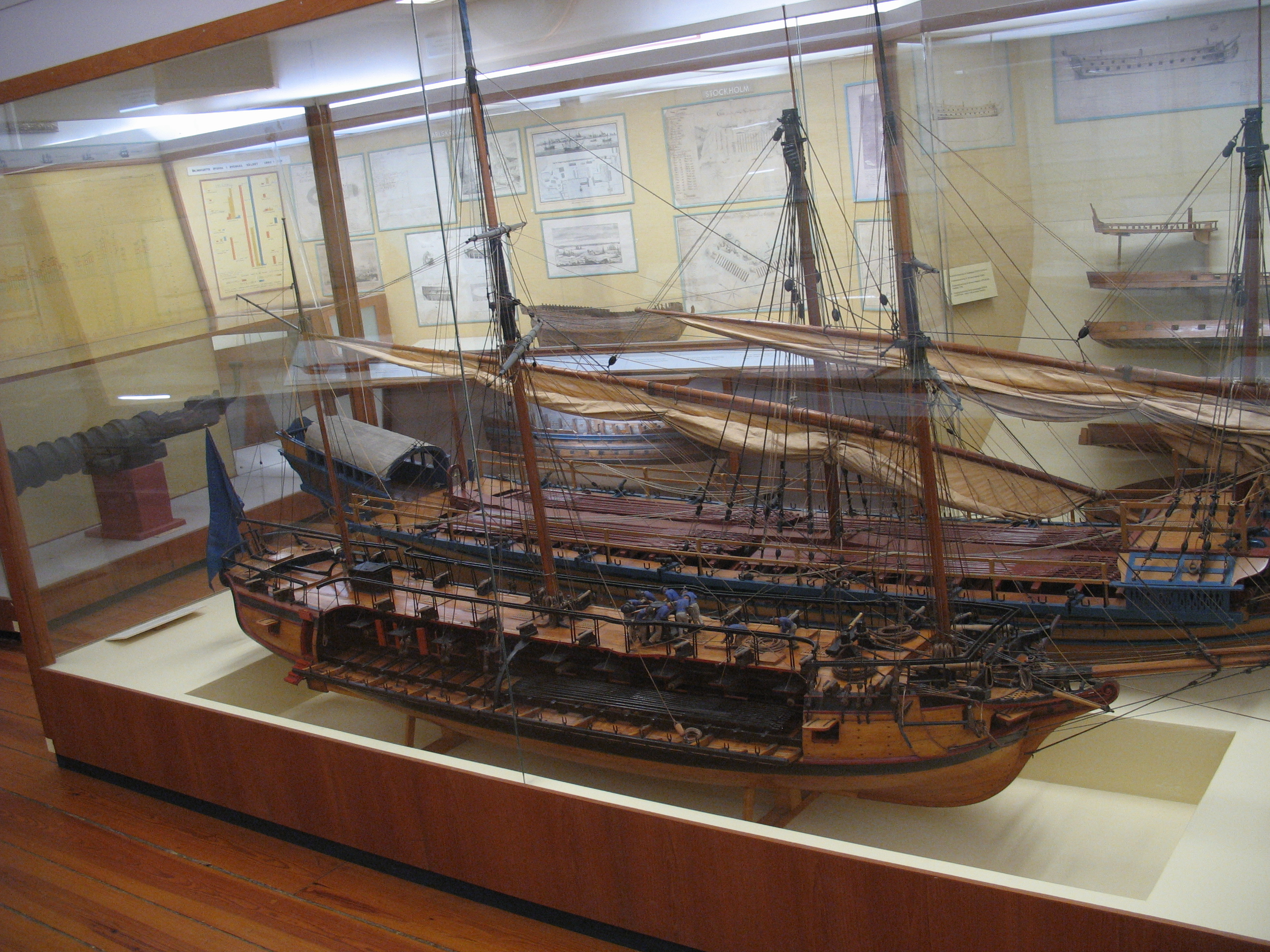 Contemporary model of the udema Thorborg (built 1772) at the Maritime Museum in Stockholm. Scale 1:16.